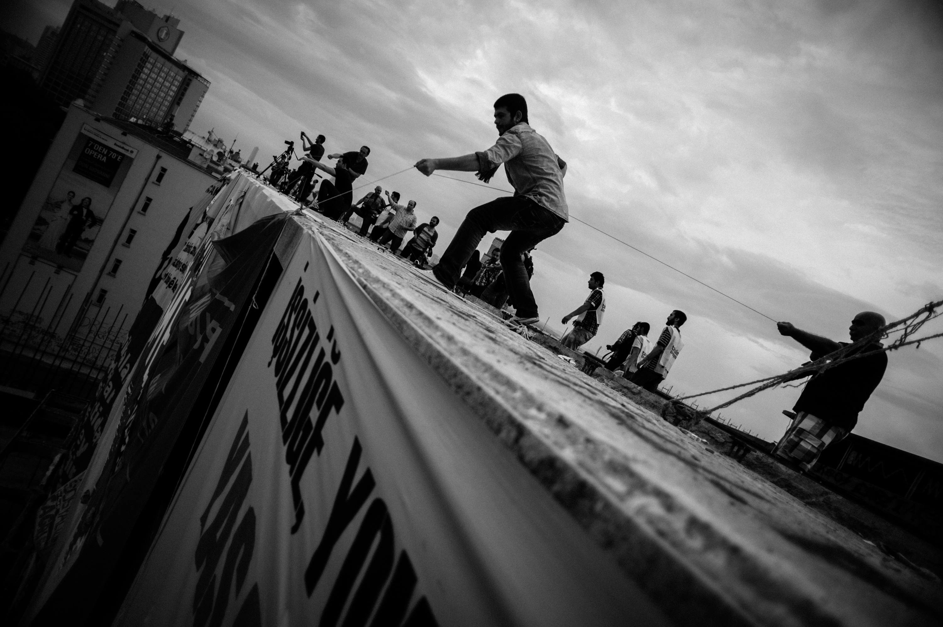 Occupation of buildings surrounding Taksim square, events of June 5, 2013.